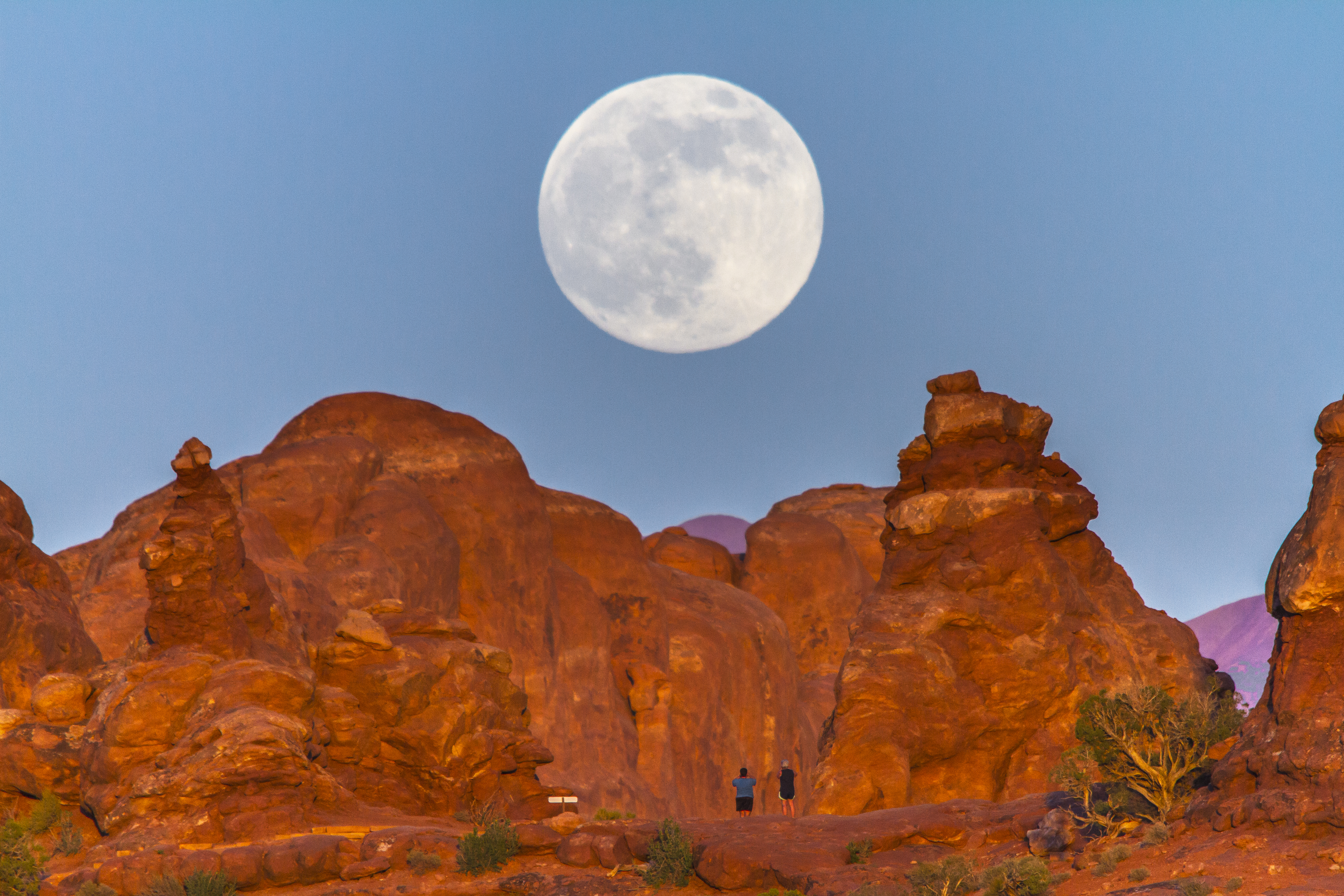 (NPS photo by Jacob W. Frank)